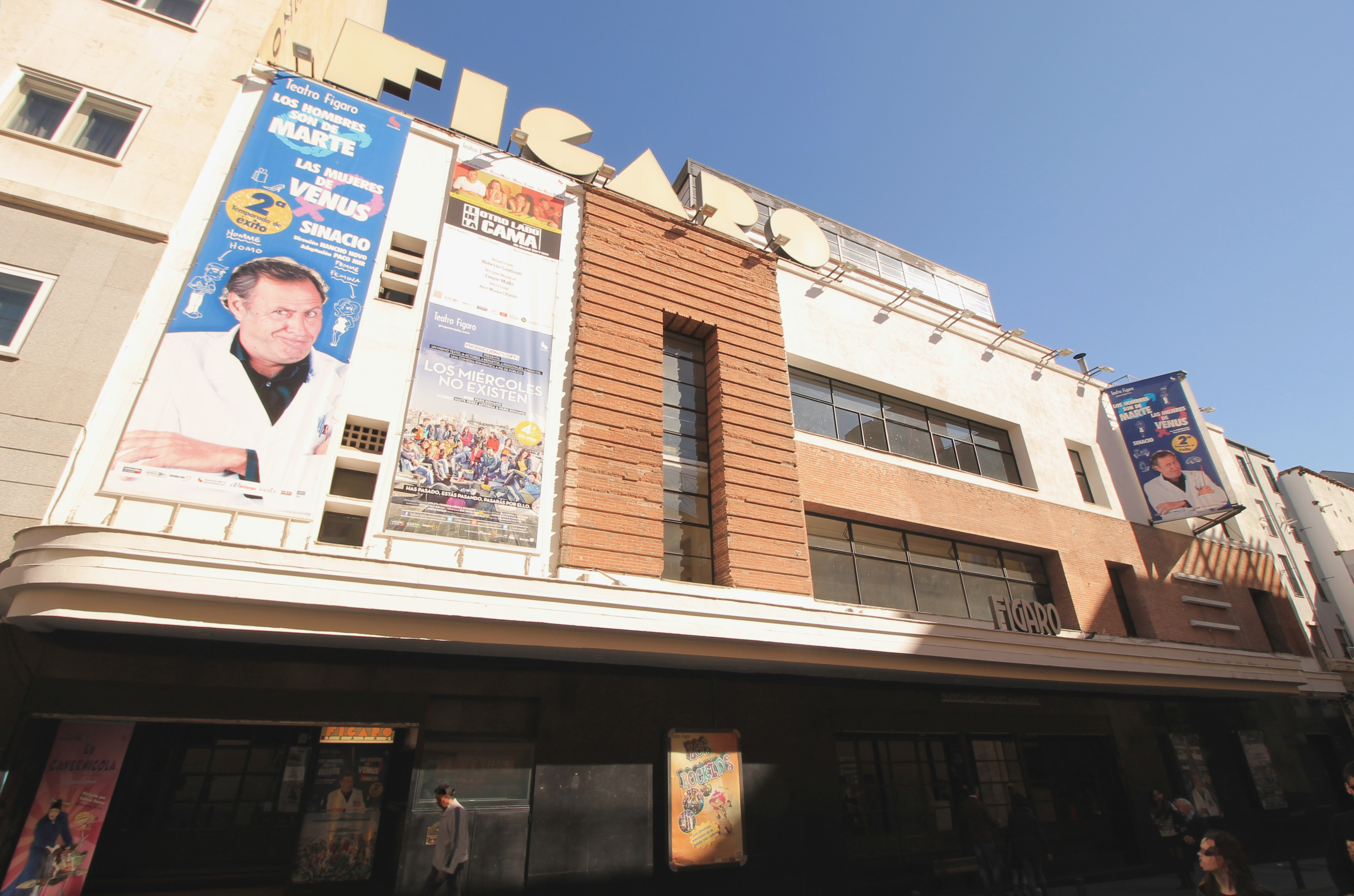 Façade of Teatro Fígaro (a theater), at 5th Calle del Doctor Cortezo (street, Centro district) in Madrid (Spain). Designed in 1930 by Felipe López Delgado and built between 1930 and 1932.